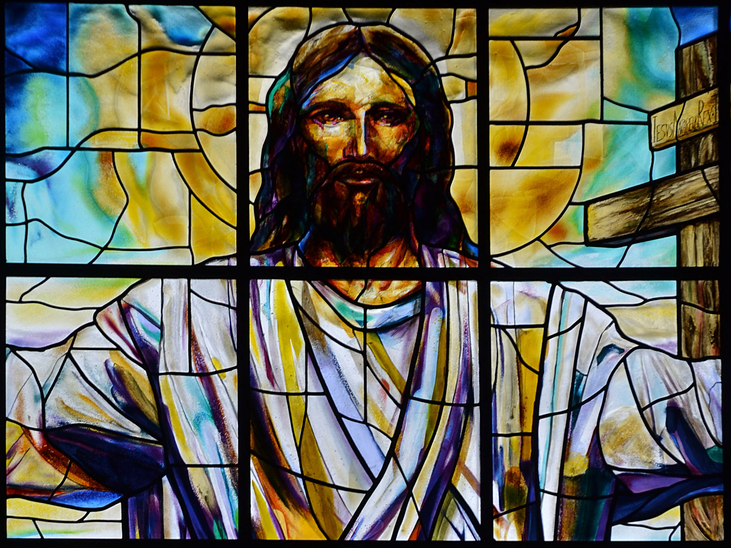 Detail of Church of the Resurrection window Leawood KS